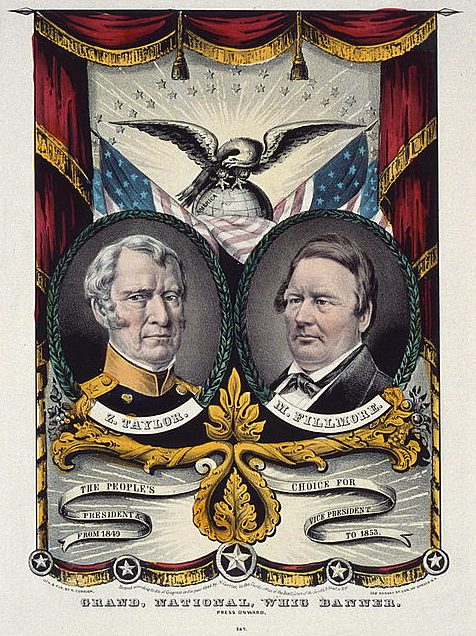 1848 Grand national Whig banner